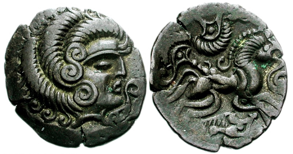 Gaul, Coriosolites coin showing stylized head and horse (circa 100-50BC)